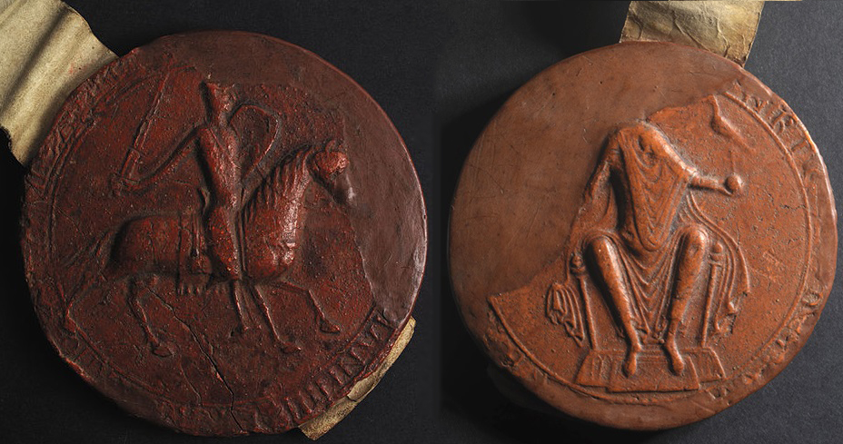 Henry II second seal - combined